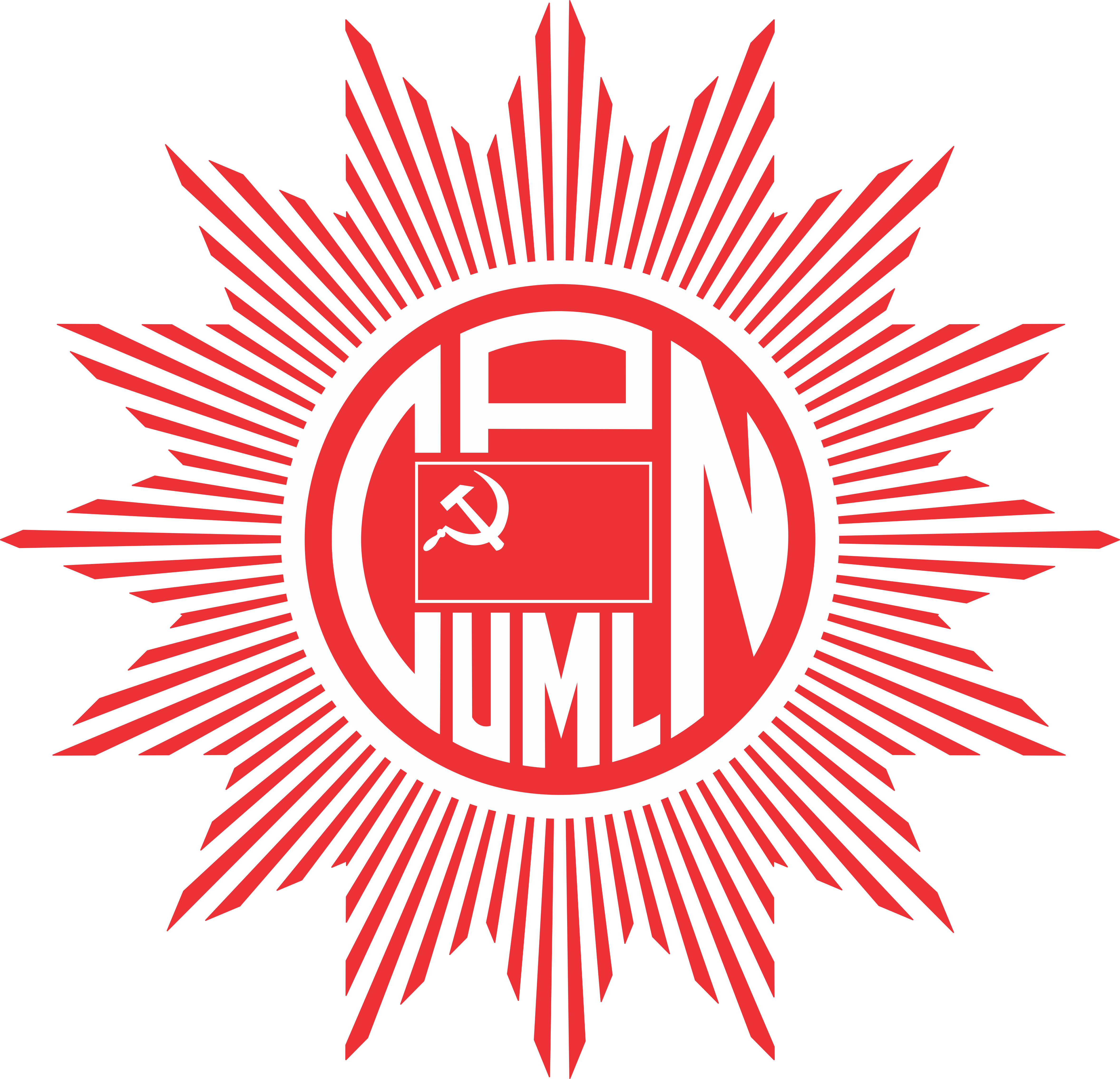 Logo of CPN (UML)